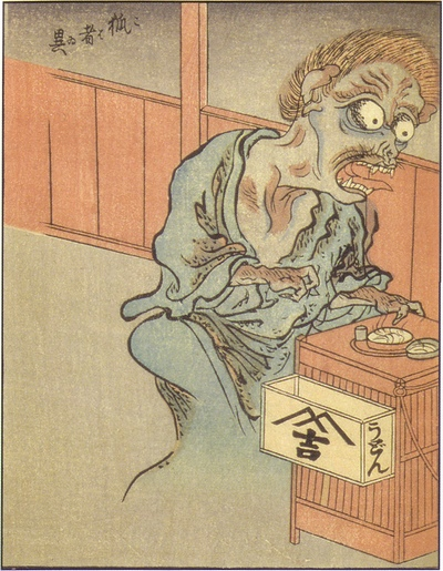 Kowai (狐者異) from the Ehon Hyaku monogatari (絵本百物語)